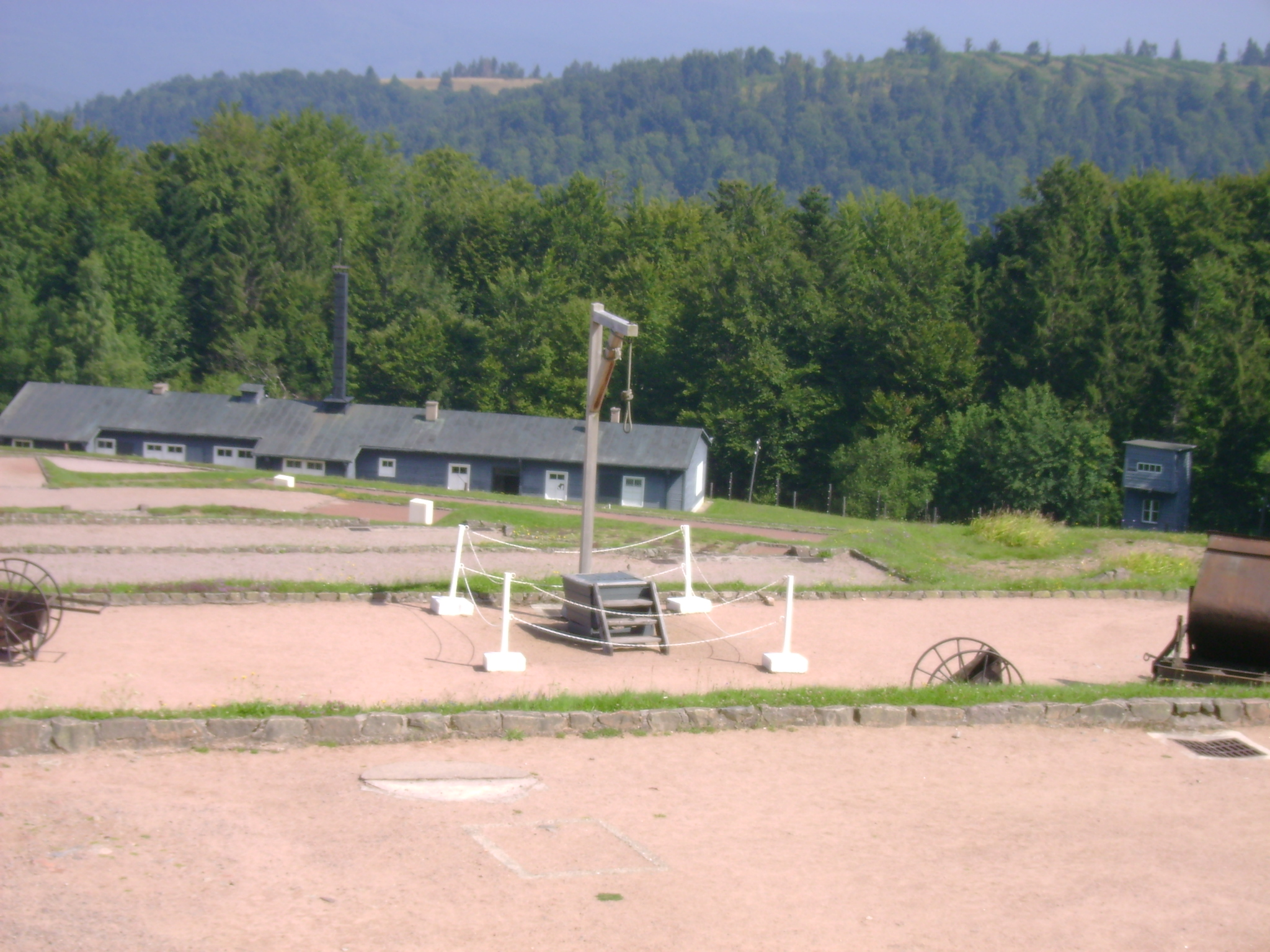 The Nazi concentration camp Natzweiler-Struthof in Alsace, modern France